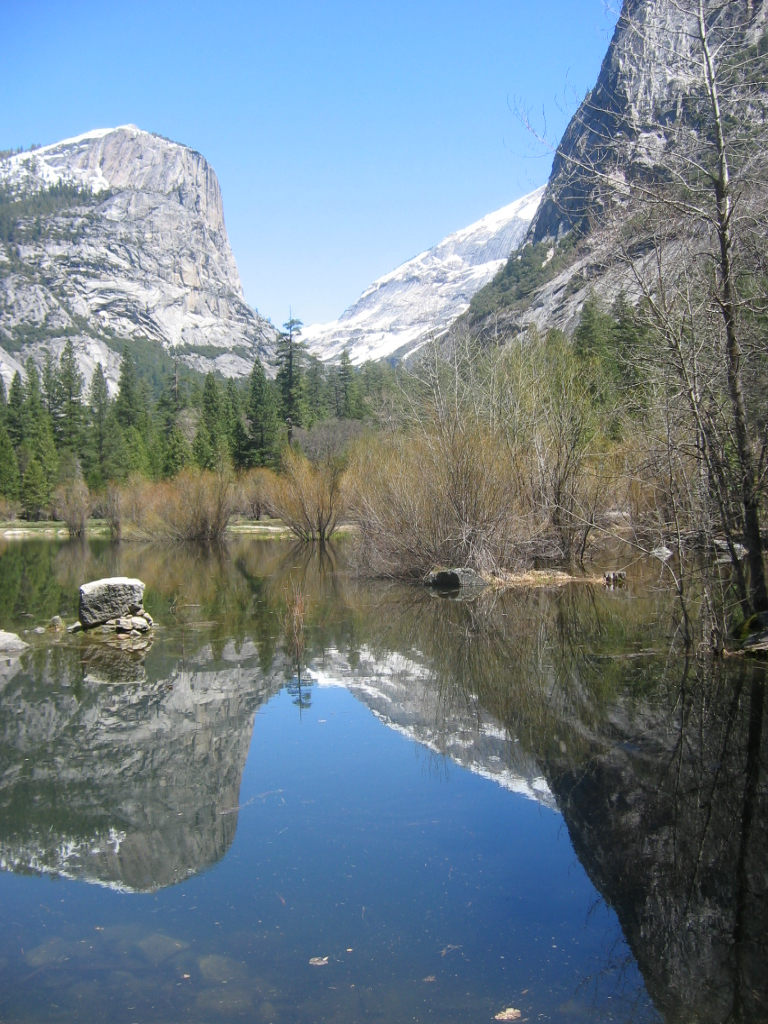 Mirror Lake, Yosemite National Park, California, USA.